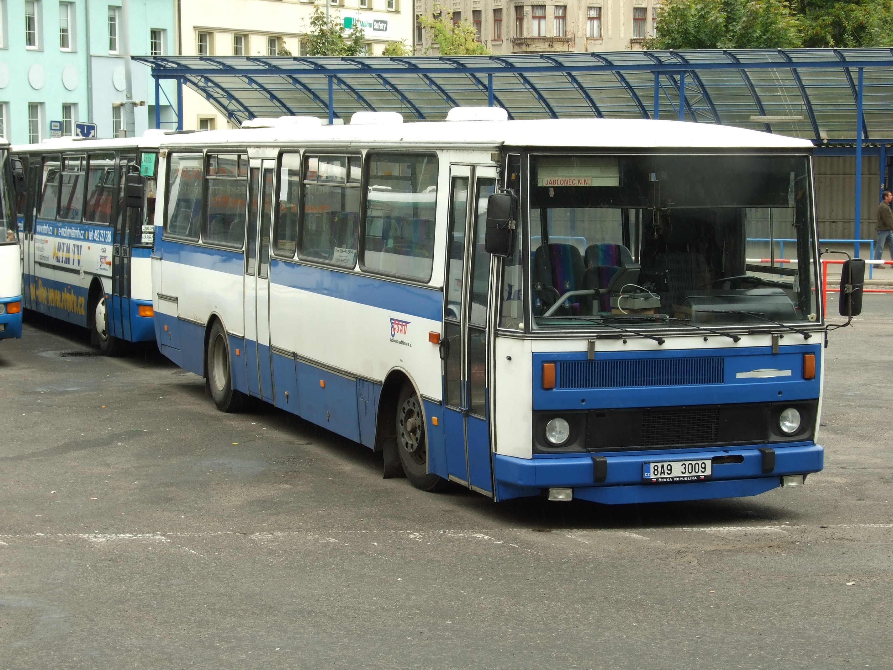 Buses in Jablonec nad Nisou, intercity coaches. Liberec region, CZhelp